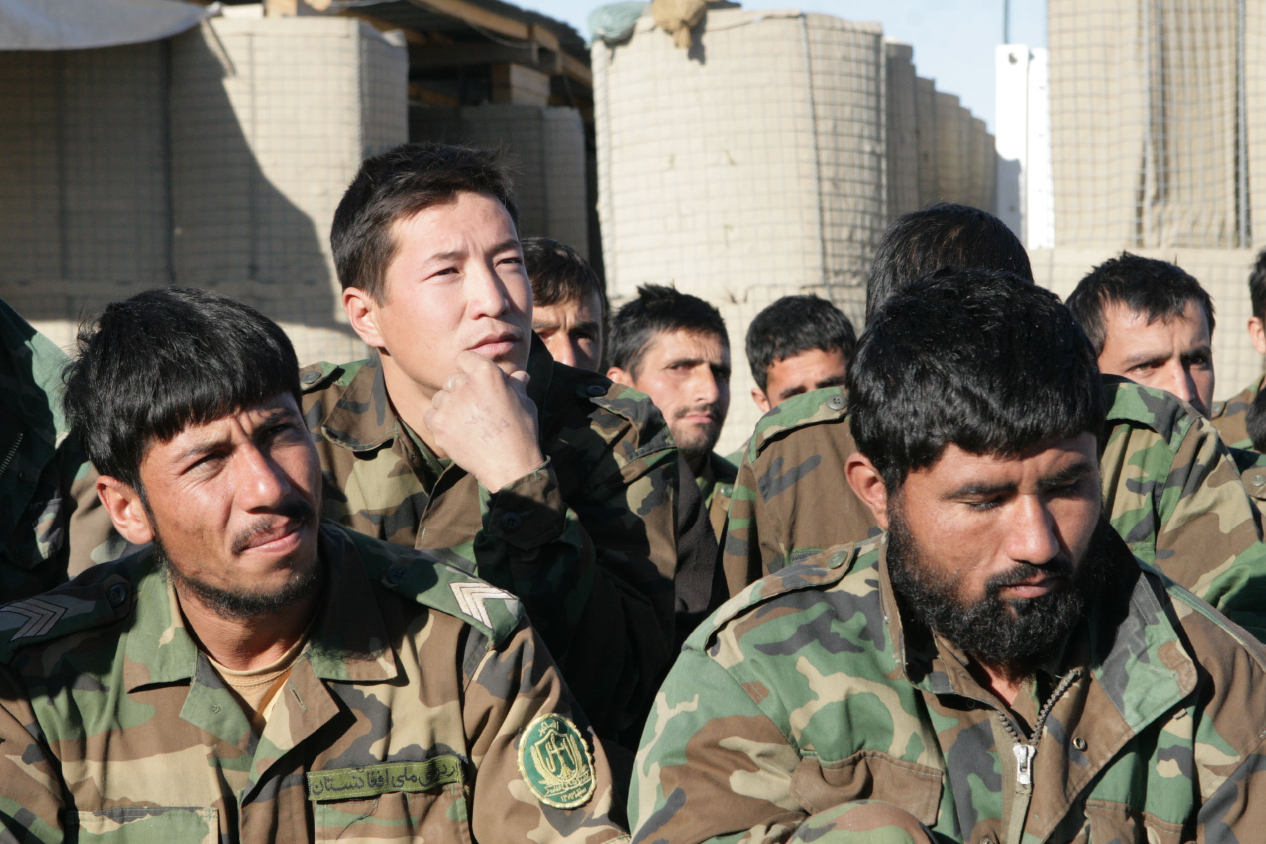 Original caption: "Members of the 6th Battalion, 3rd Brigade, 205th Corps, Afghan national army, listen to a speech by Lt. Col. John E. McDonough, the commanding officer of 2nd Battalion, 2nd Marine Regiment, after their graduation ceremony at Patrol Base Shamshad, Nov. 26, 2009. Twenty-eight members of 6th Battalion graduated after two weeks of training headed by soldiers from 2nd Battalion, 508th Parachute Infantry Regiment, 4th Brigade Combat Team, 82nd Airborne Division. (Regimental Combat Team-7, 1st Marine Division Public Affairs Photo by Lance Cpl. Dwight Henderson)"